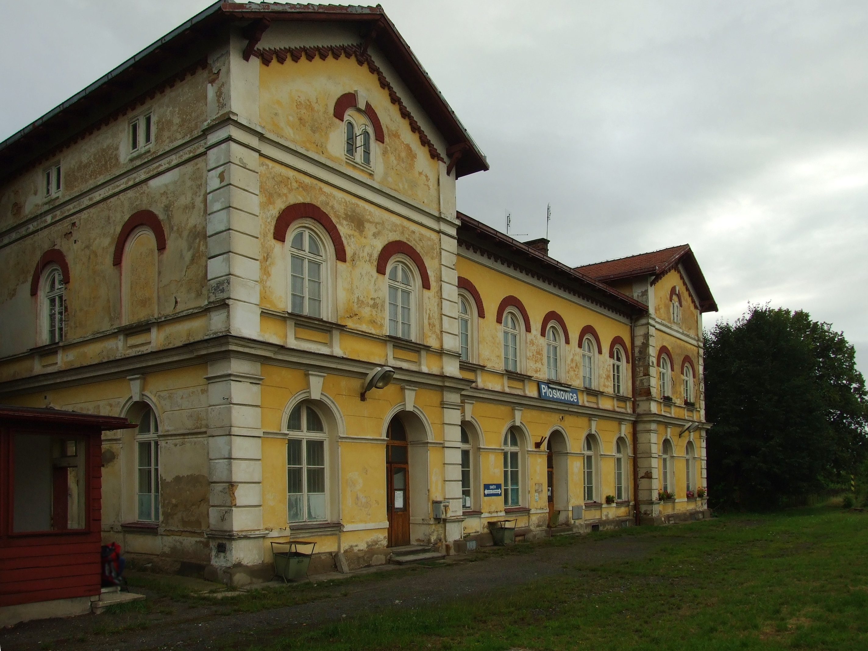 Train station Ploskovice. Ploskovice is a town located near Litoměřice, Ústecký Region, CZ